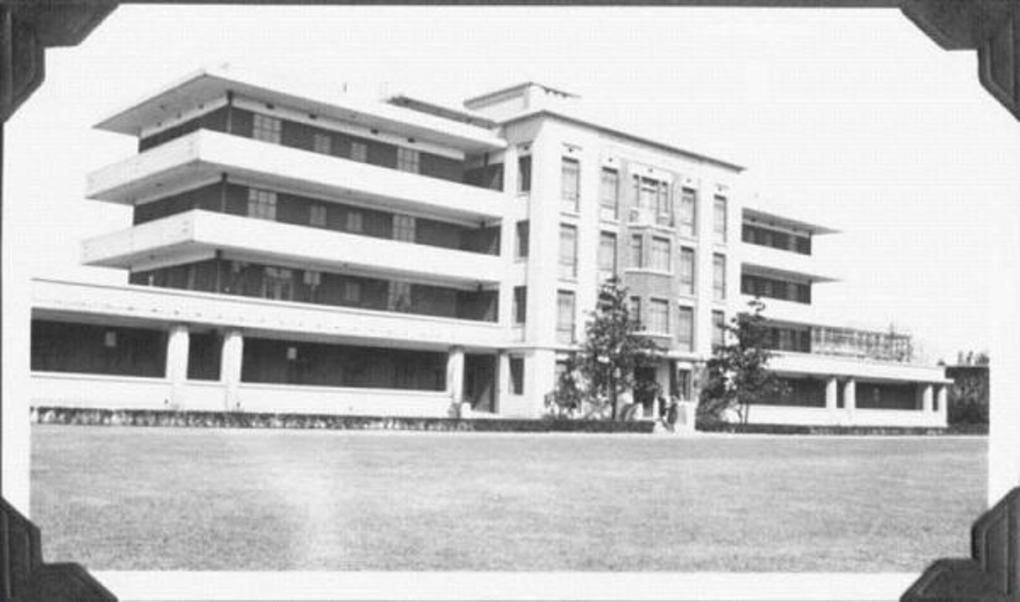 Sainte Marie Hospital - isolation pavilion